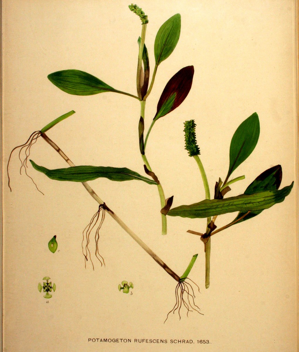 Potamogeton alpinus